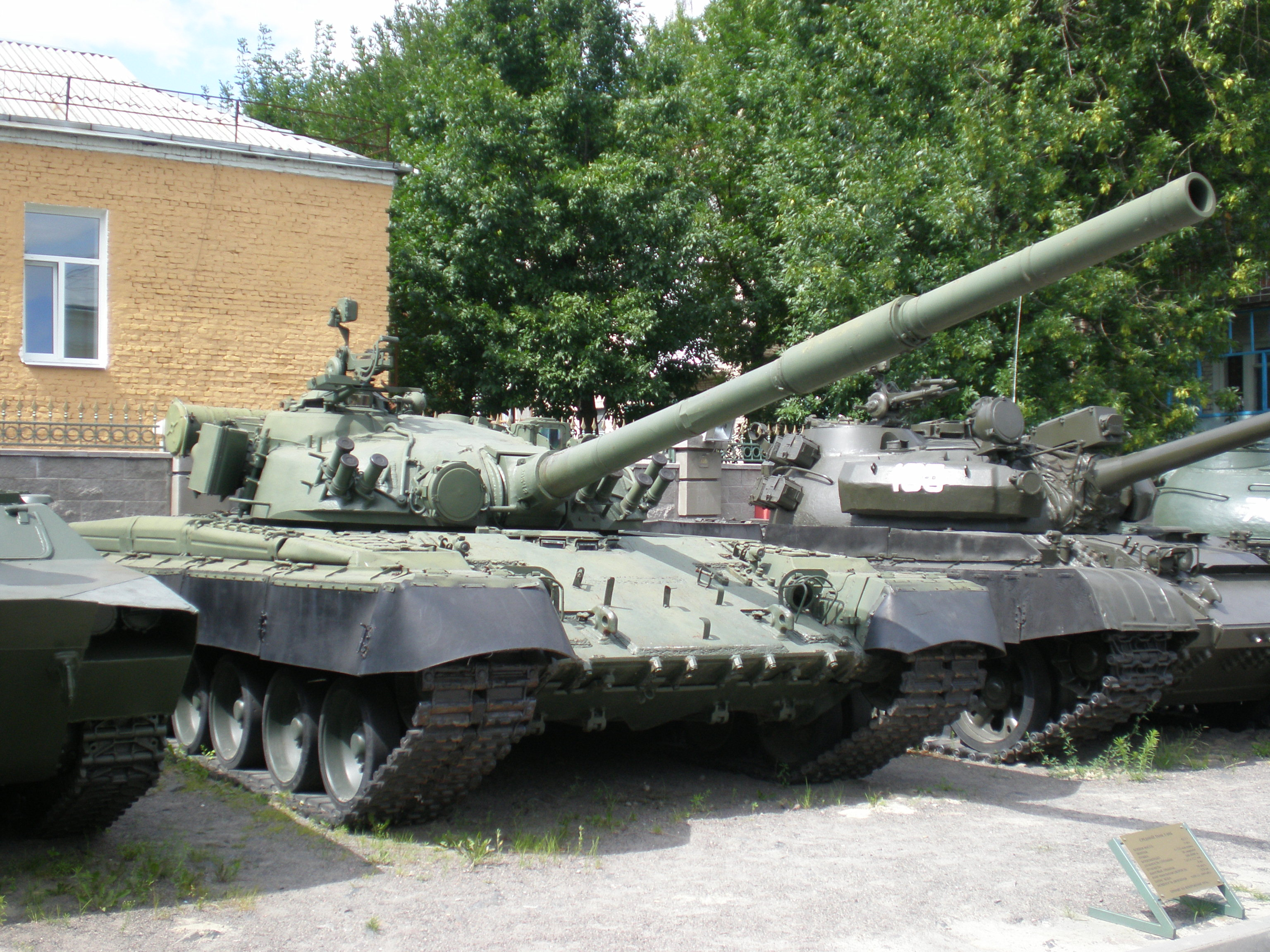 T-80B and T-55AMB in a museum in Belarus.